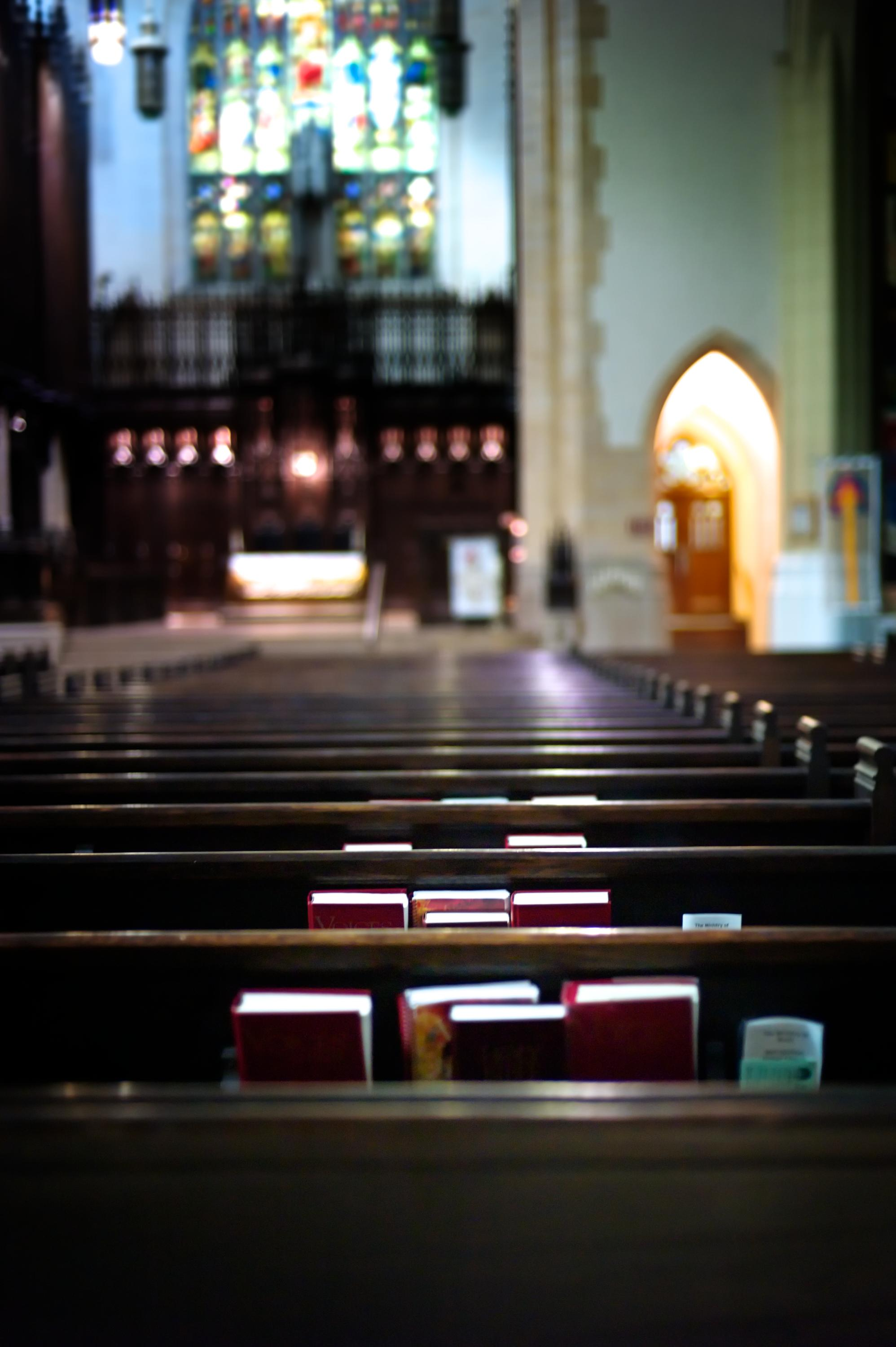 Church pews in Metropolitan United Church in Toronto, Ontario, Canada